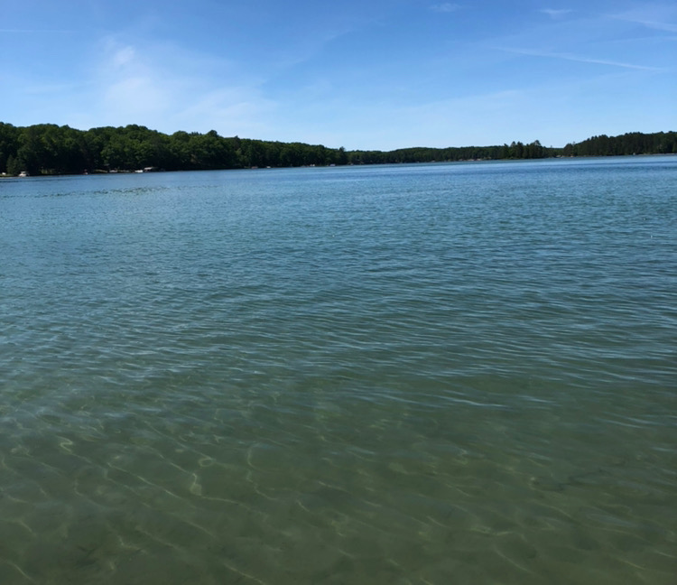 Image of Long Lake in northeastern Montmorency County, Michigan